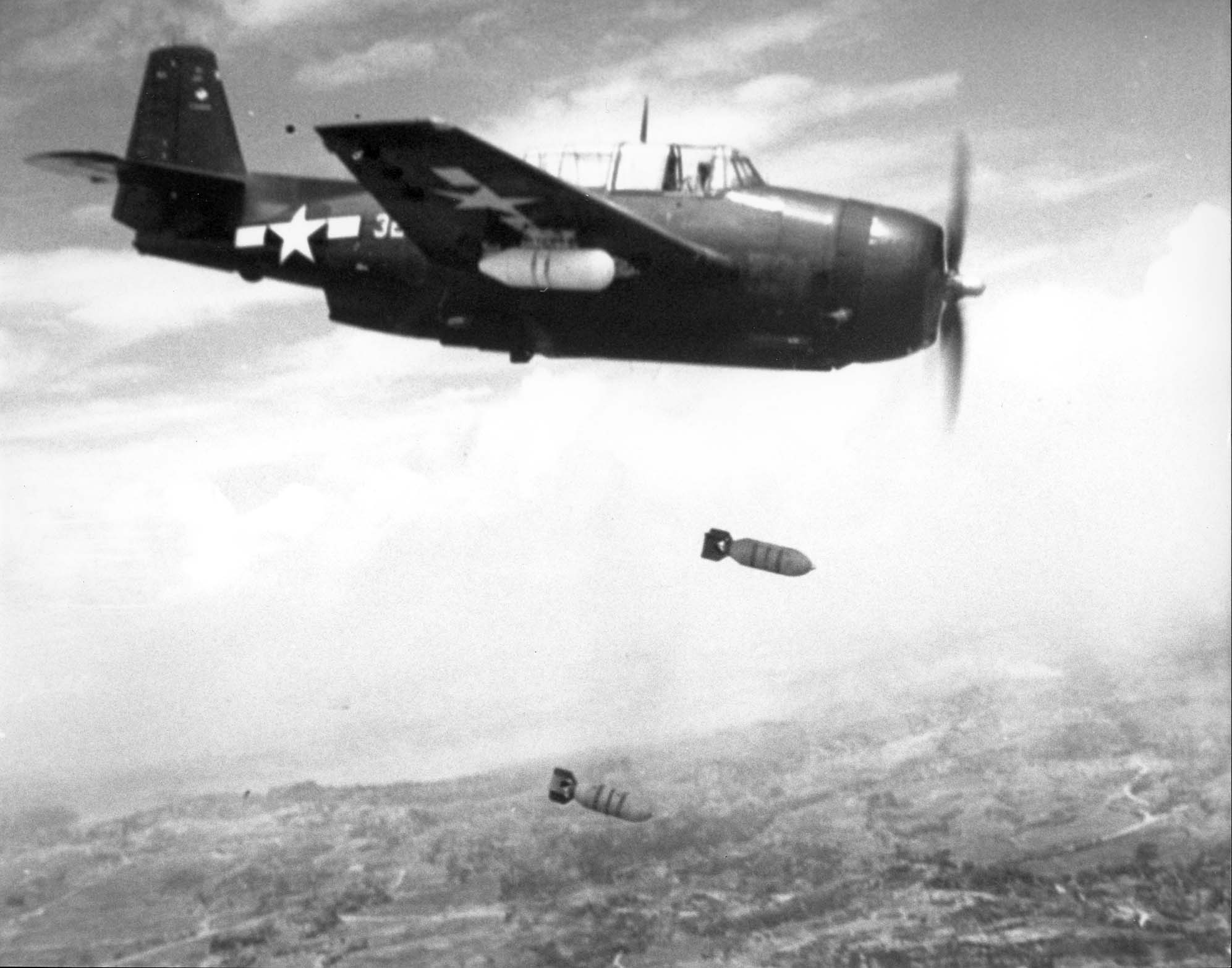 A U.S. Marine Corps Grumman TBM Avenger dropping 227 kg bombs over Okinawa.